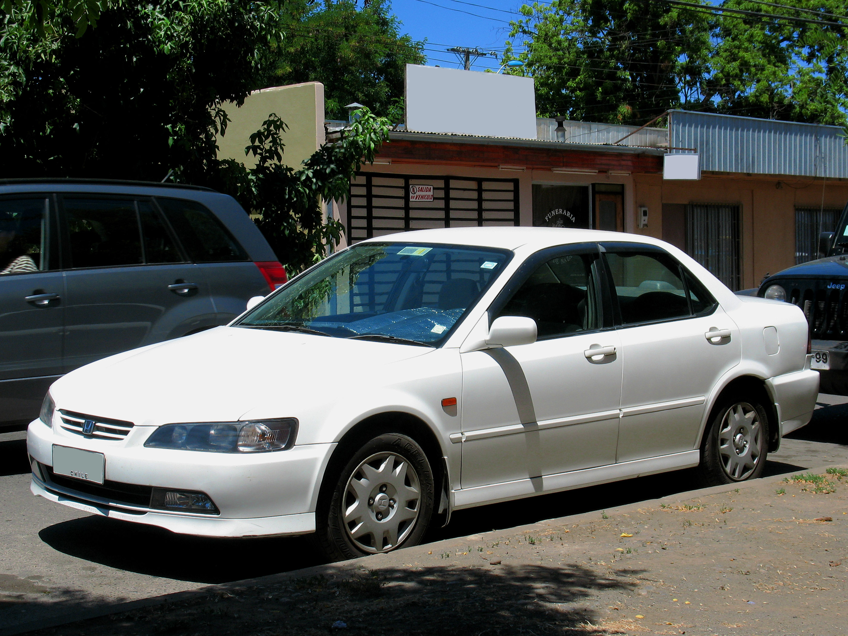 Honda Accord 2.0 1998